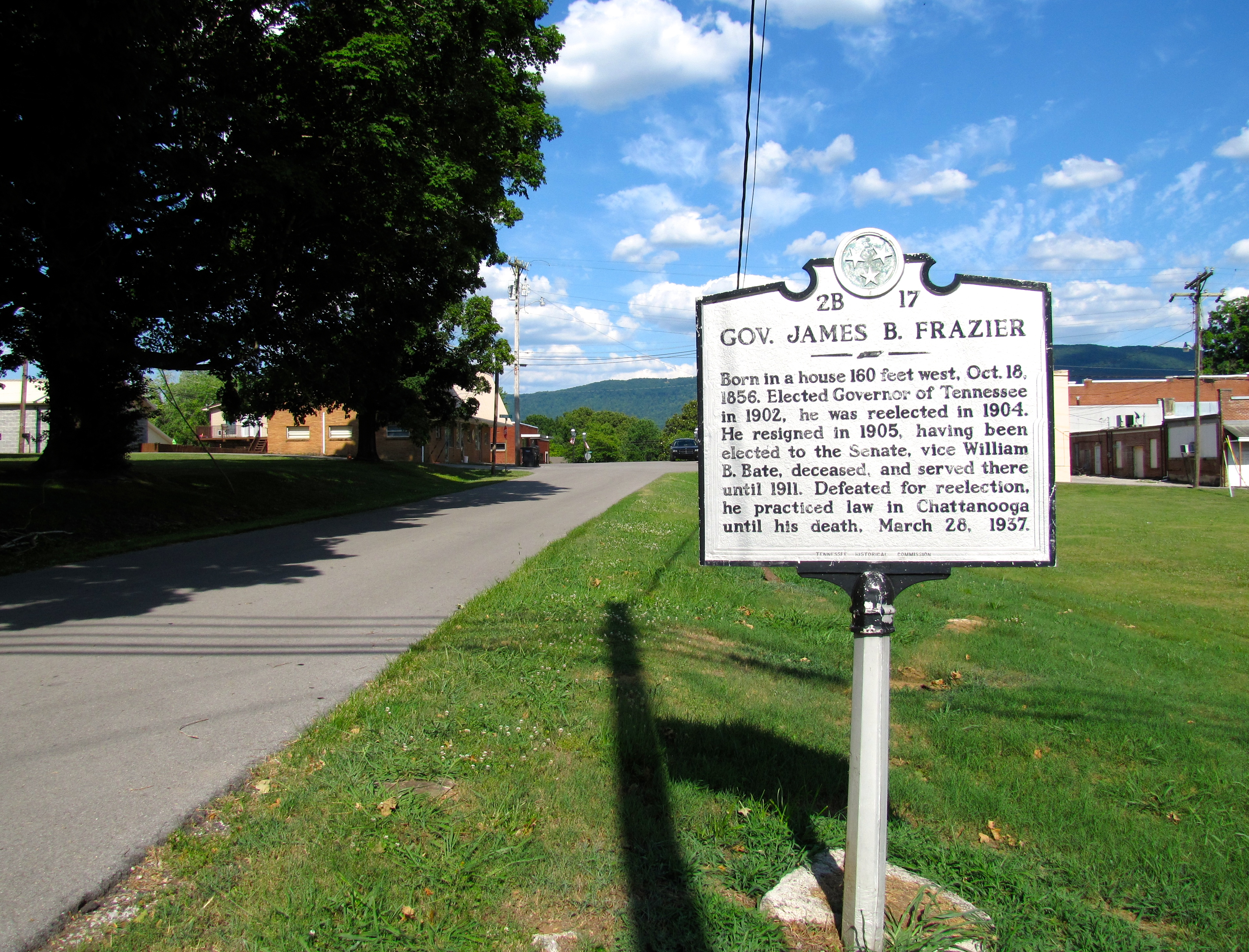 Tennessee Historical Commission marker near the house where Governor James B. Frazier (1856–1937) was born in Pikeville, Tennessee, United States.